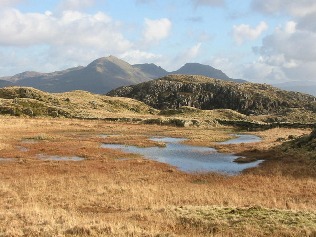 Llyn Oerddwr A former quarry reservoir.